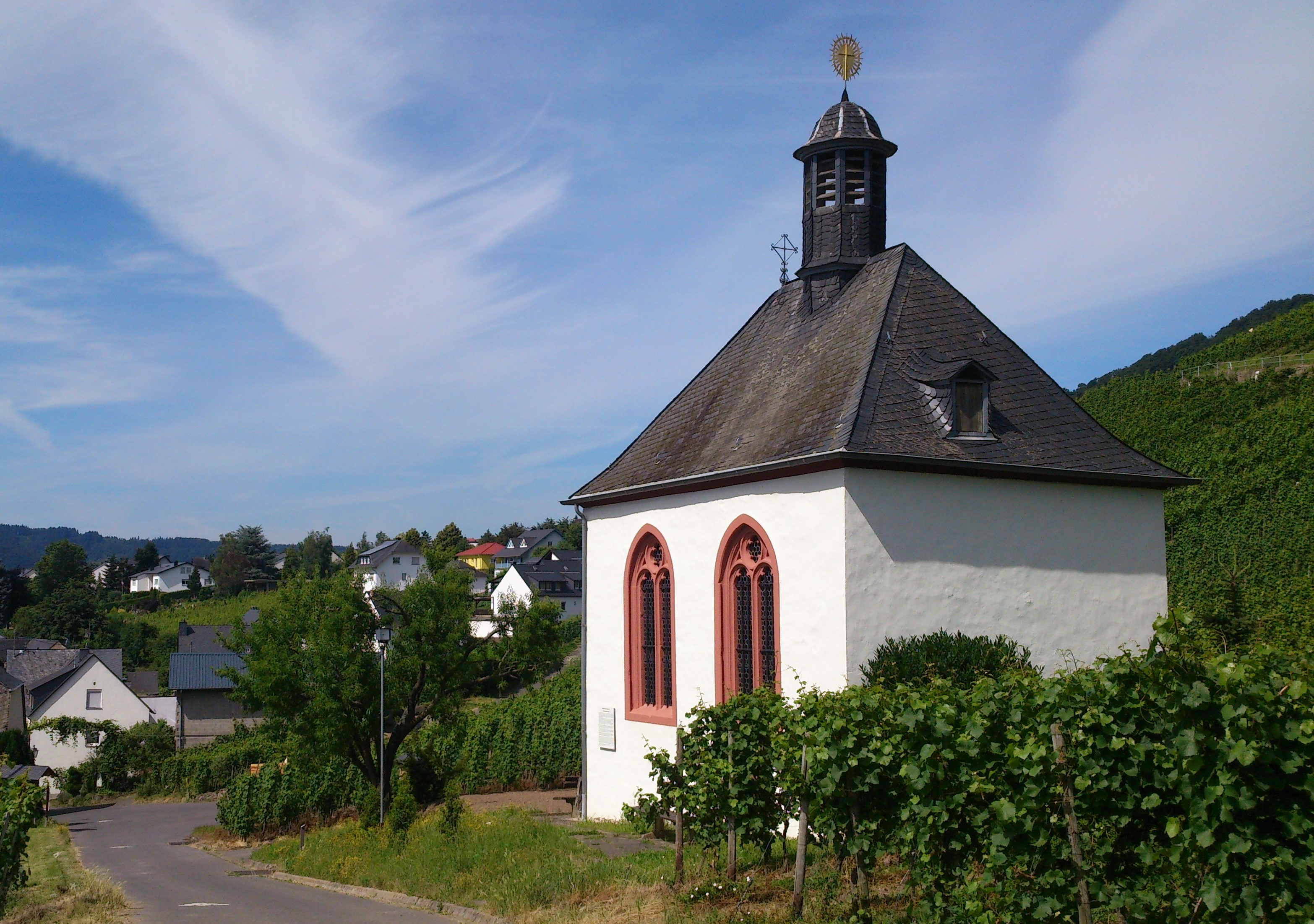 Chapel Kesselstadt in Kröv.